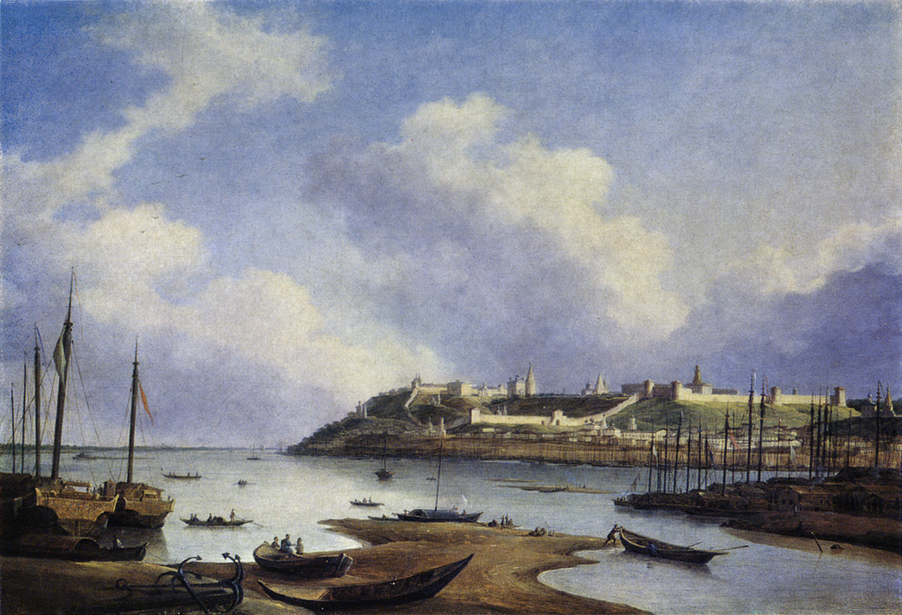 Nizhniy Novgorod